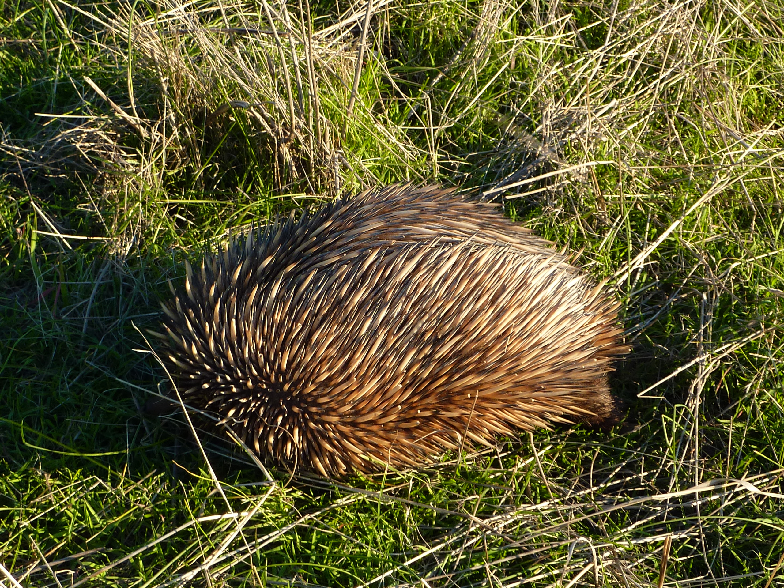 Onkaparinga River National Park, within a few km from the Old Noarlunga entrance. A echidna walking among olive trees, or hiding under one of them.